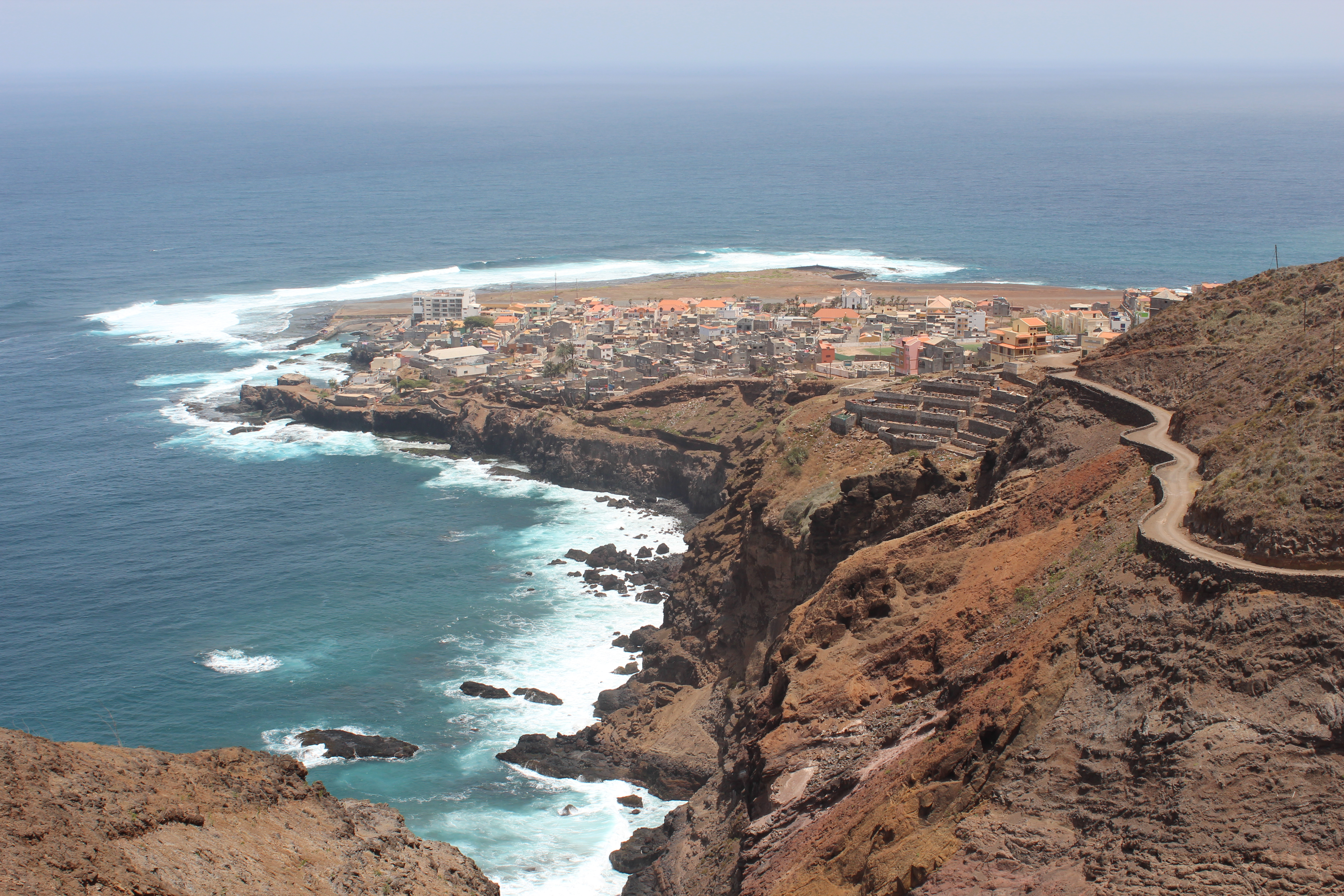 View of Ponta do Sol, island of Santo Antao, Cabo Verde.